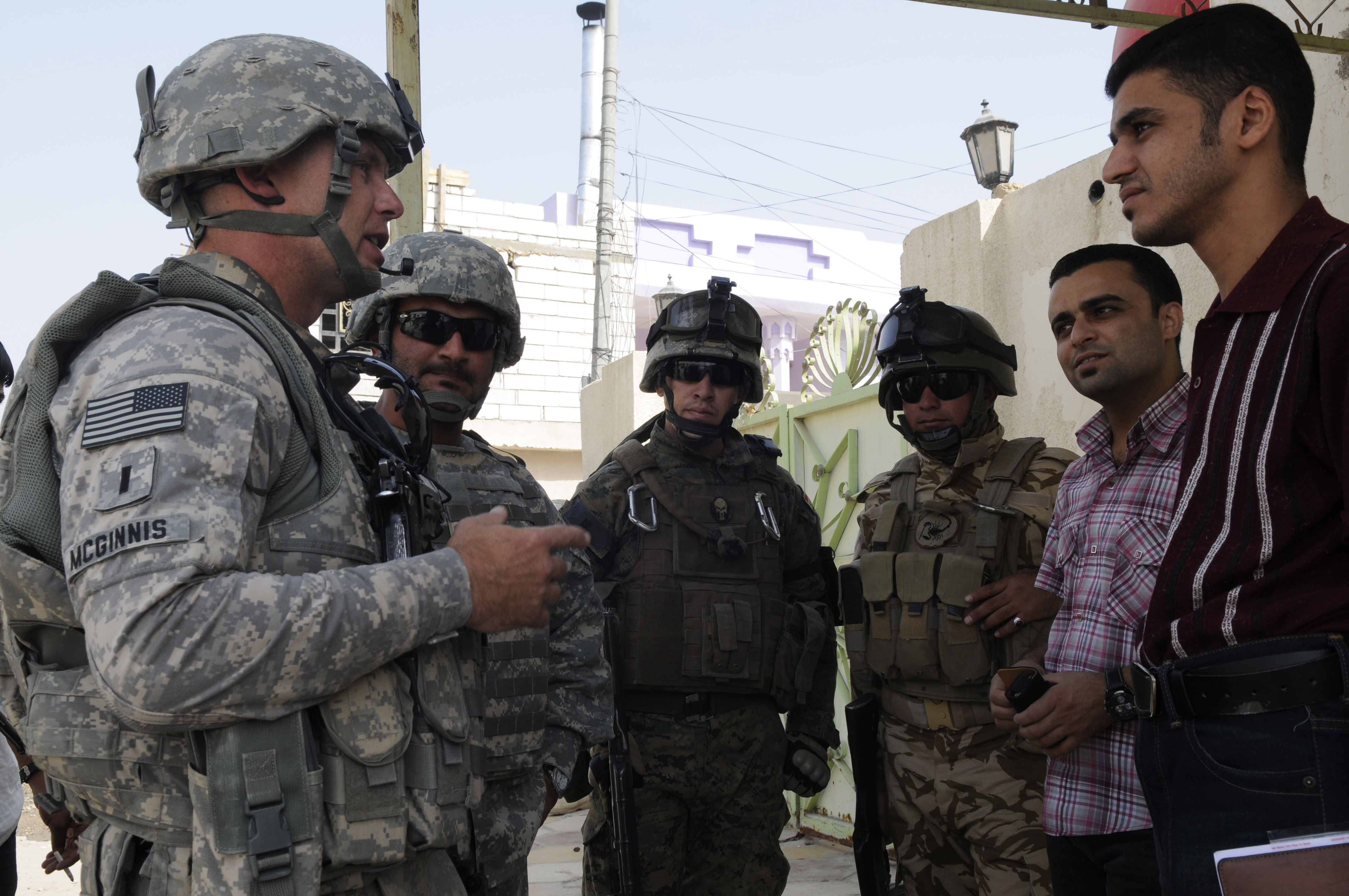 U.S. Army 1st Lt. Christian McGinnis, assigned to the 1314th Civil Affairs Company, 17th Fires Brigade, and Iraqi soldiers speak with residents during a joint patrol in Najibiyah, near Basra, Iraq, on Sept. 29, 2009. The patrol is gathering information about the area and nearby bridge traffic.